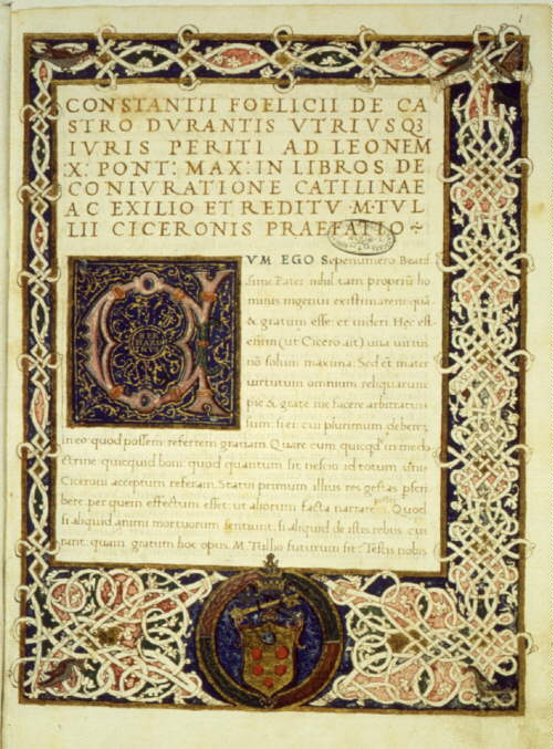 First dedication page to Pope Leo X of a Renaissance code of De coniuratione Catilinae, a historiographical work by the jurist Costanzo Felici imitating Sallust.